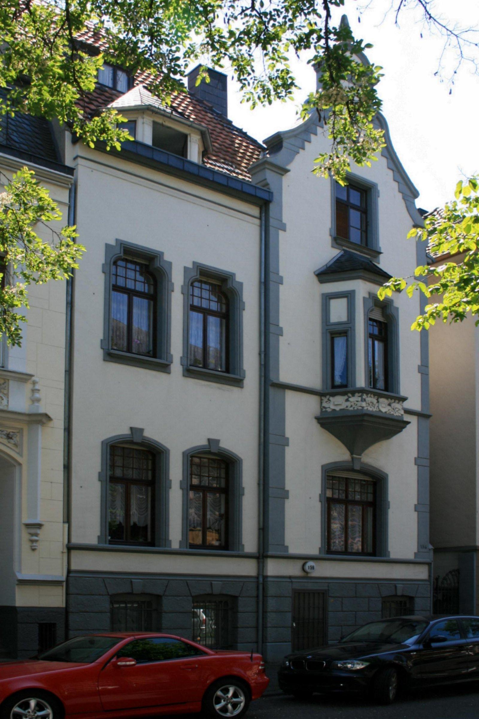 Cultural heritage monument No. H 024 in Mönchengladbach